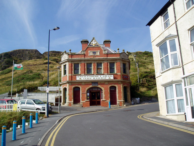 Aberystwyth Cliff Railway In the best traditions of funiculars, especially in Switzerland, a commodious and elegant lower station is provided.